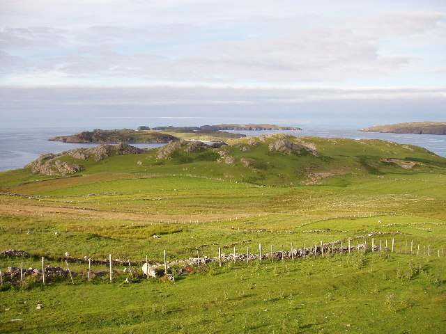 Ard Skinid headland, Talmine, Sutherland. This photograph shows the beautiful Ard Skinid headland, near to Talmine on the north coast of Sutherland, Scotland. In the background are the Rabbit Islands, in the Tongue bay. They are linked to the headland at low spring tides.